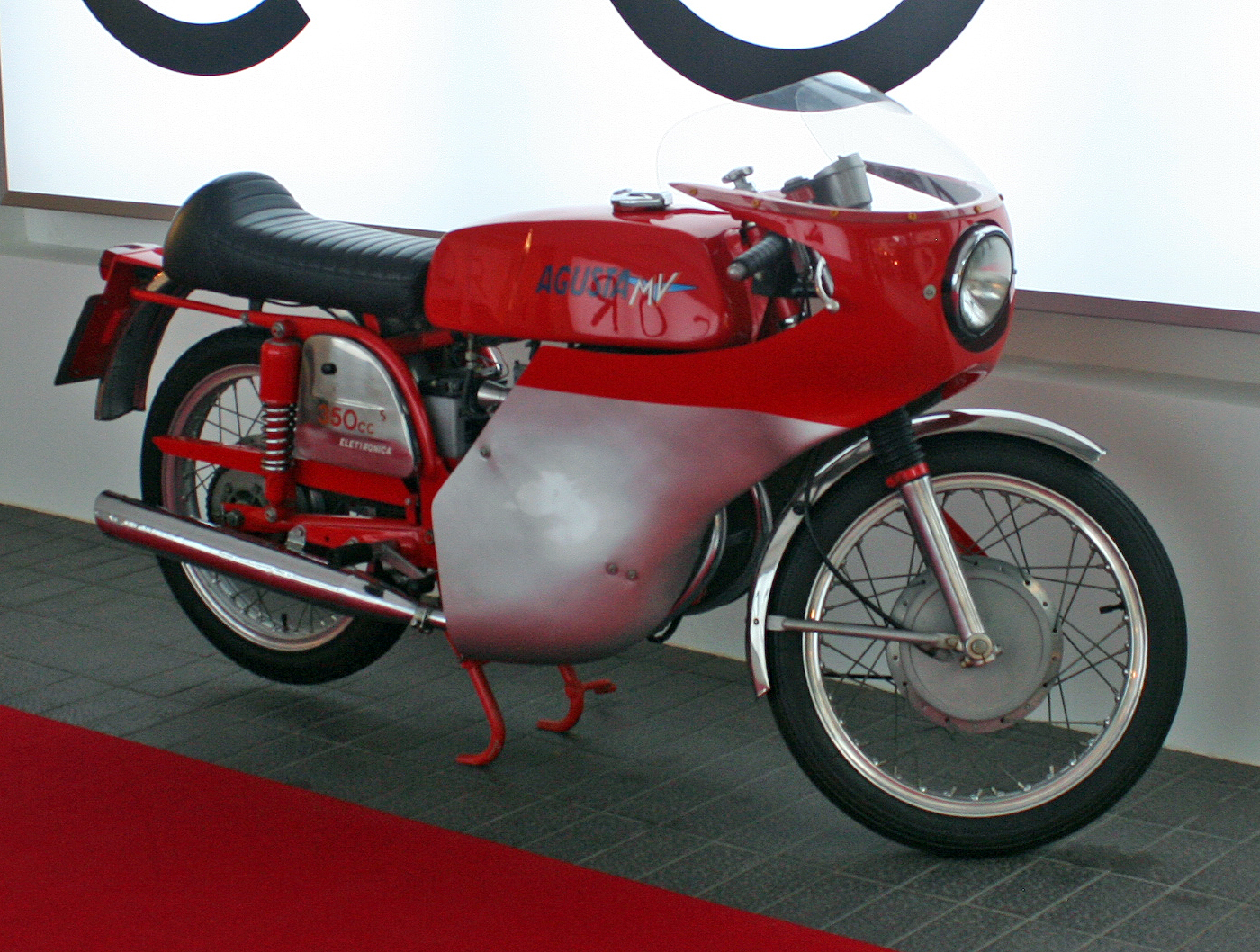 Early seventies MV Agusta 350S Elettronica in a nice boutique in Tokyo's Harajuku neighborhood